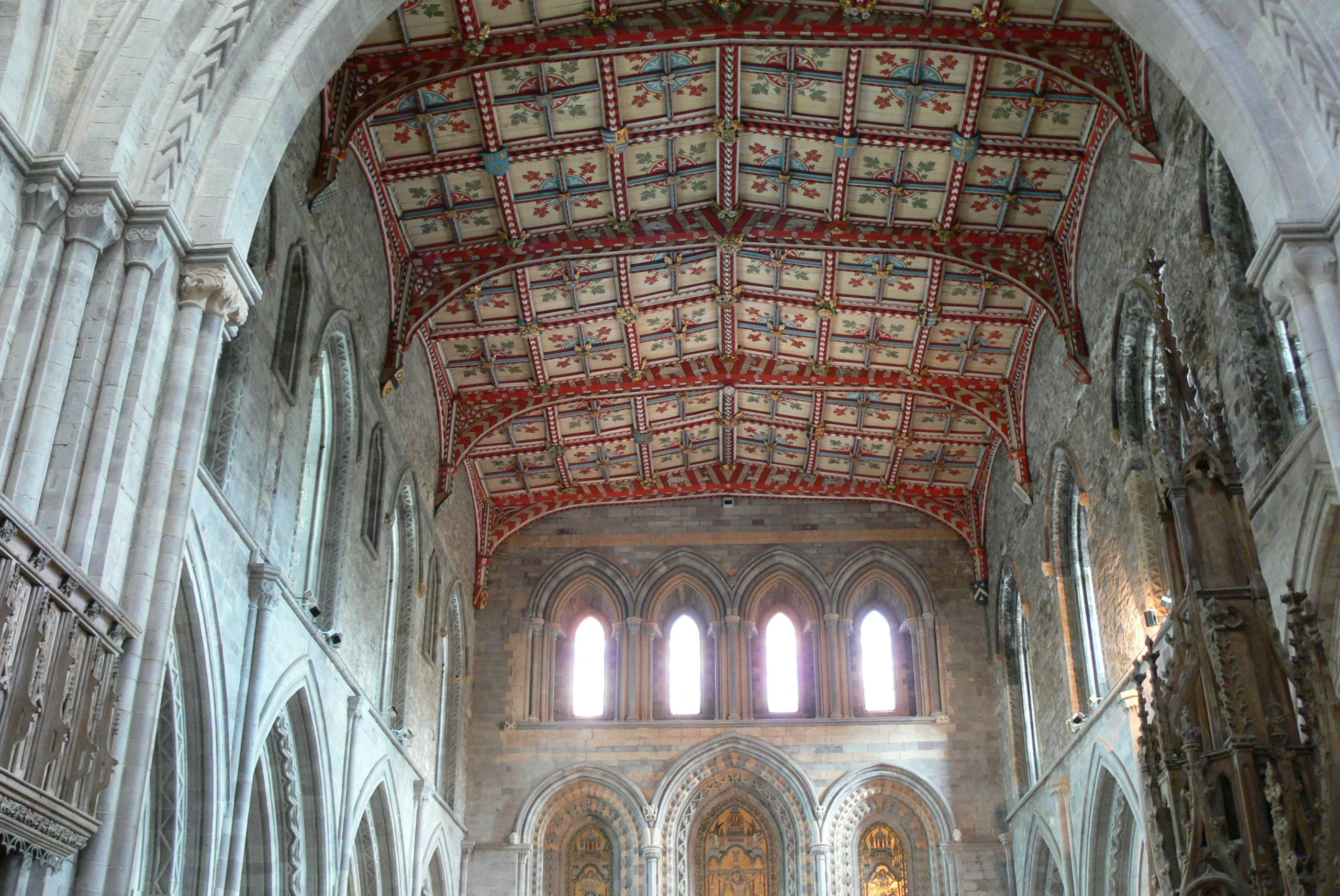 St.David's ( Wales ). Cathedral: Painted ceiling ( 16th century ) in the choir.